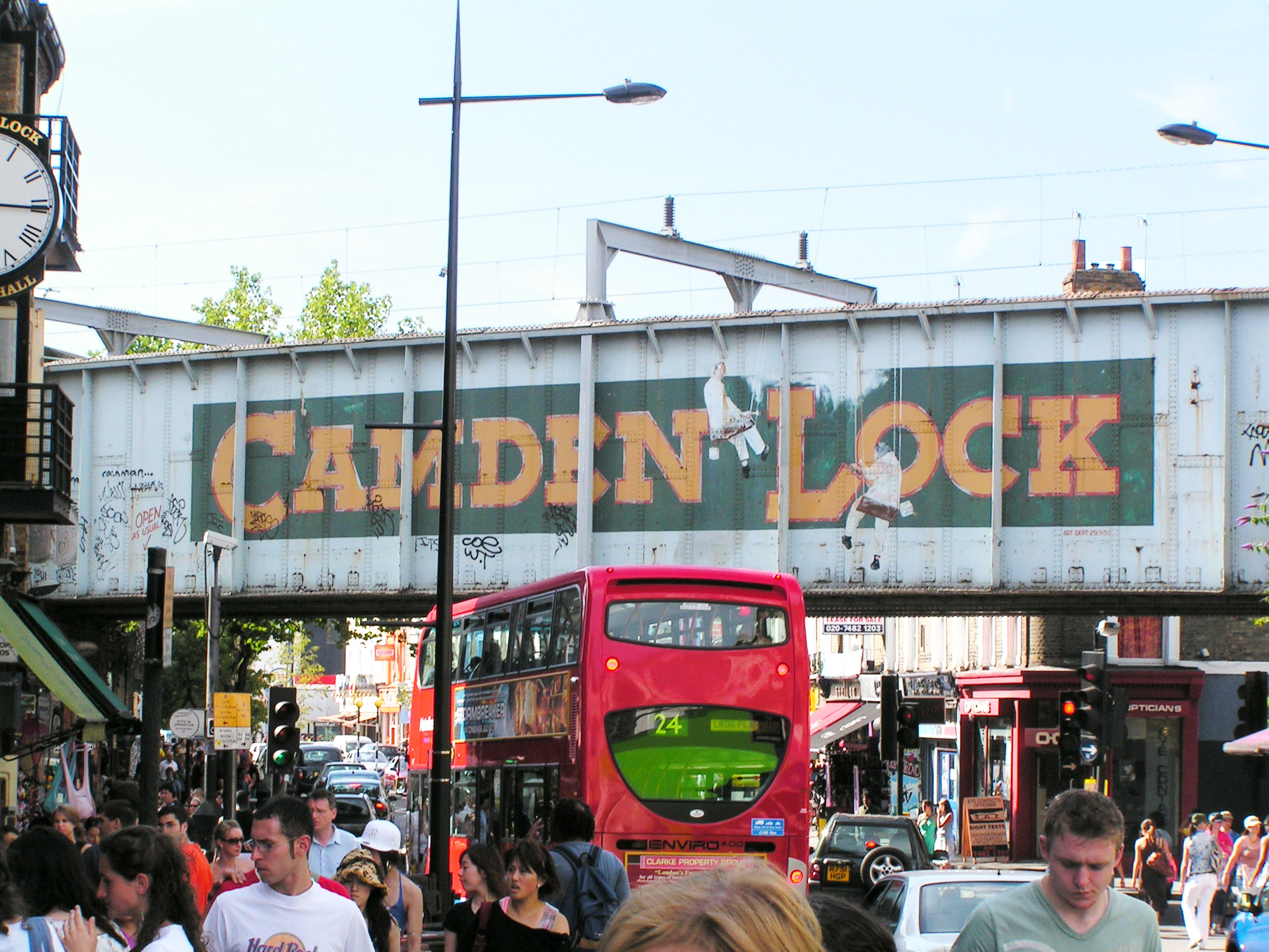 View of the railway bridge over Chalk Farm Road. which carries the North London Line.